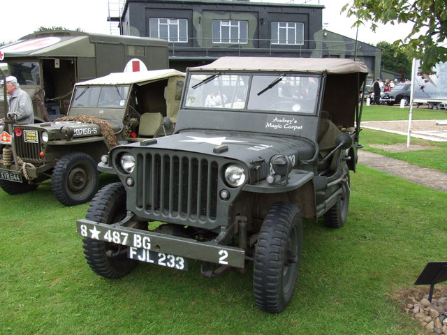 RAFBF 90th Birthday Air Show, East Kirkby. The car is Willys MB, as front frame crossmember indicates.